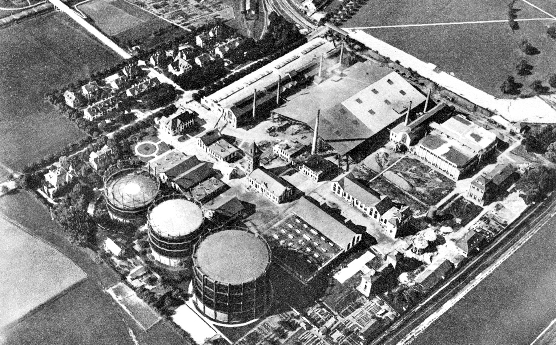 Gas works of Zürich, Switzerland at Schlieren, photographed from a balloon.